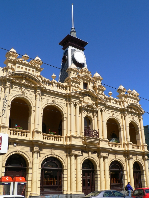 Former Collingwood Post and Telegraph Office